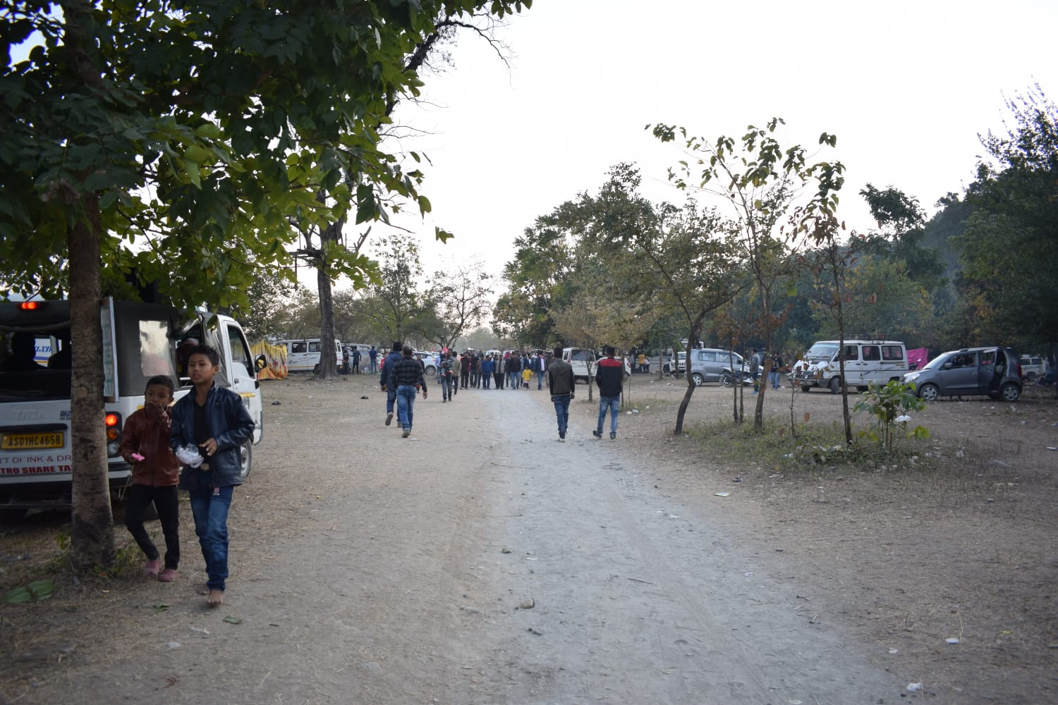 Chowki picnic spot, Baksa district, Assam